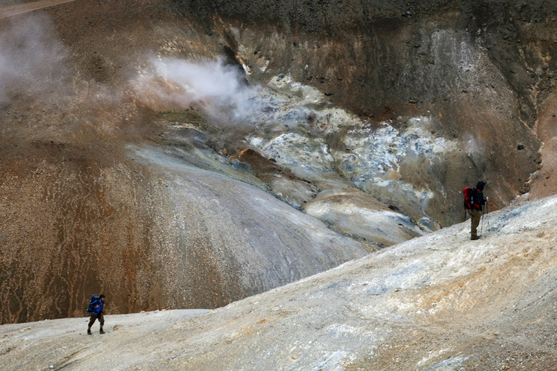 On the way from Hrafntinnusker to Alftavatn